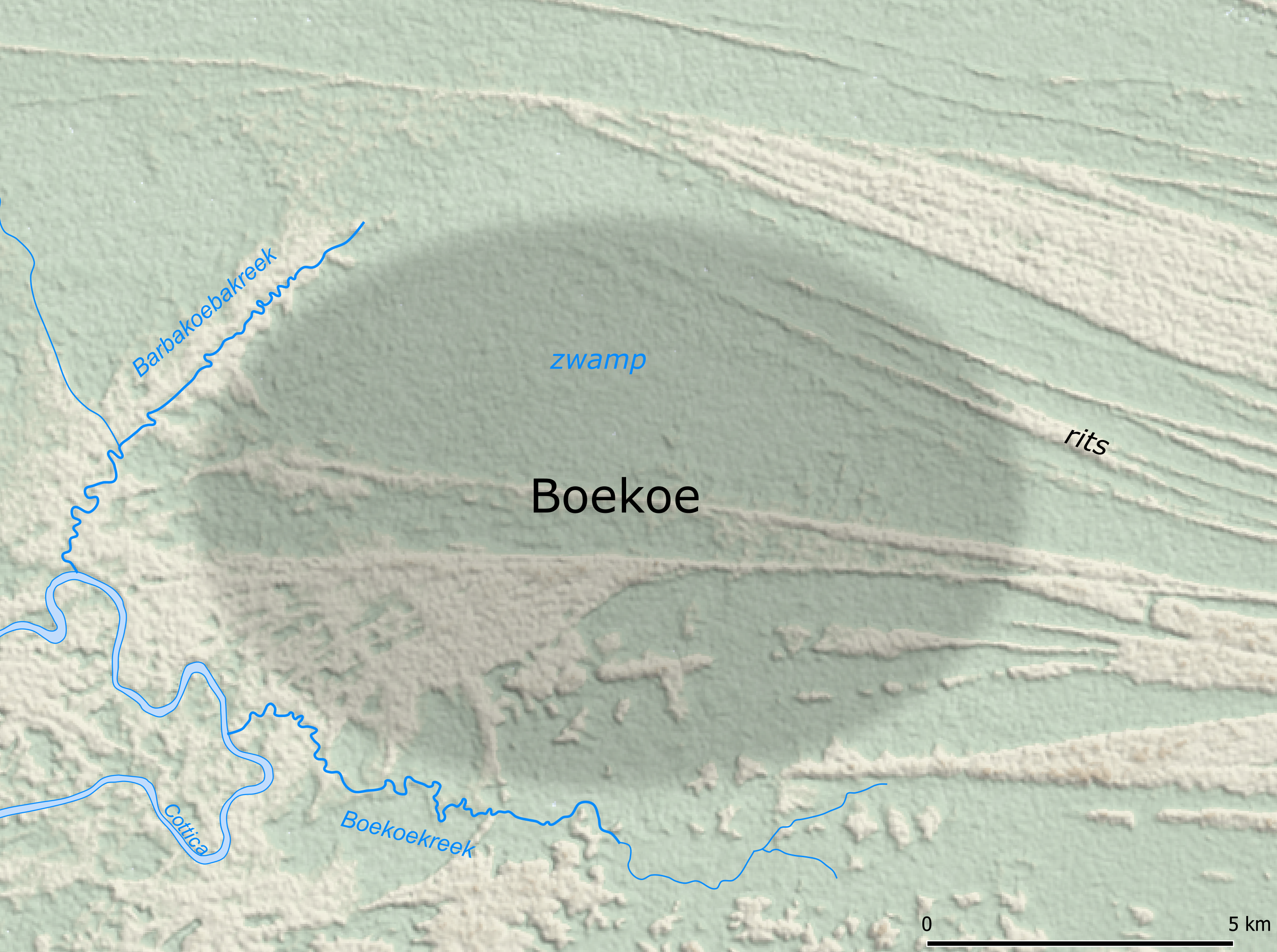 Estimated location of Fort Boekoe between the Barbakoeba Creek and the Boekoe Creek east of the Cottica River in Northeast Suriname This map may be incomplete, and may contain errors. Don't rely solely on it for navigation.